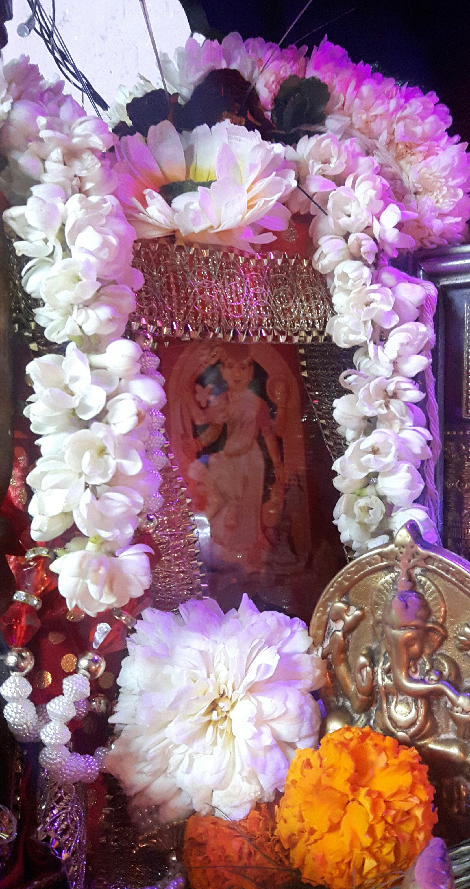 Aryadurga devi, devihasol.